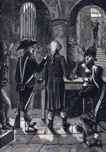 Marquis de Sade investigated by policemen